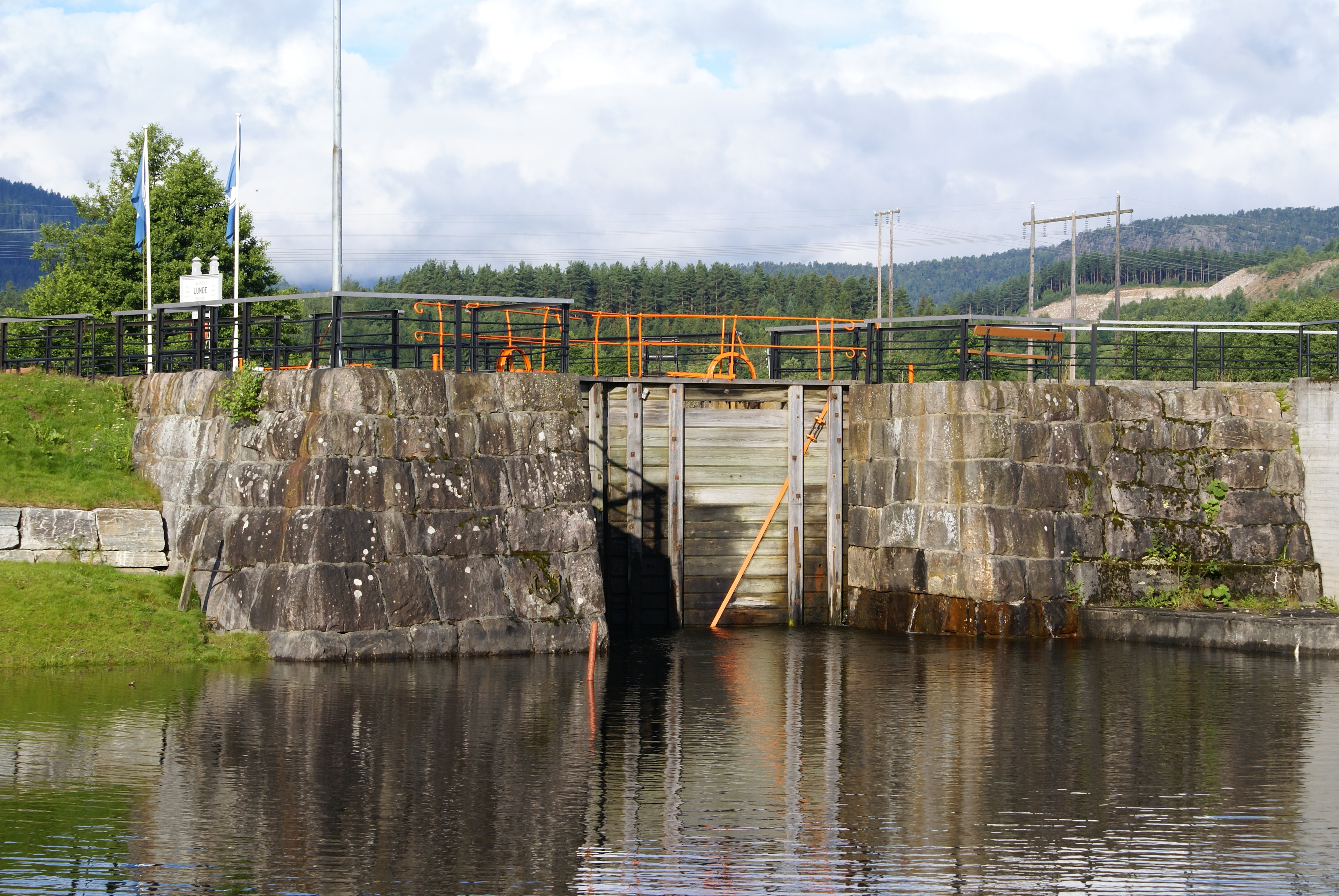 Lock at Nome of the Telemark Canal, Norway.